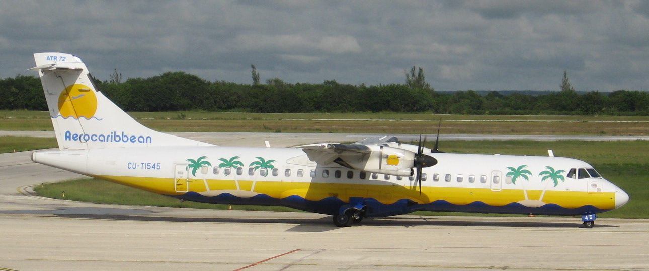 Twin turbo-prop ATR 72 of Aerocaribbean airlines